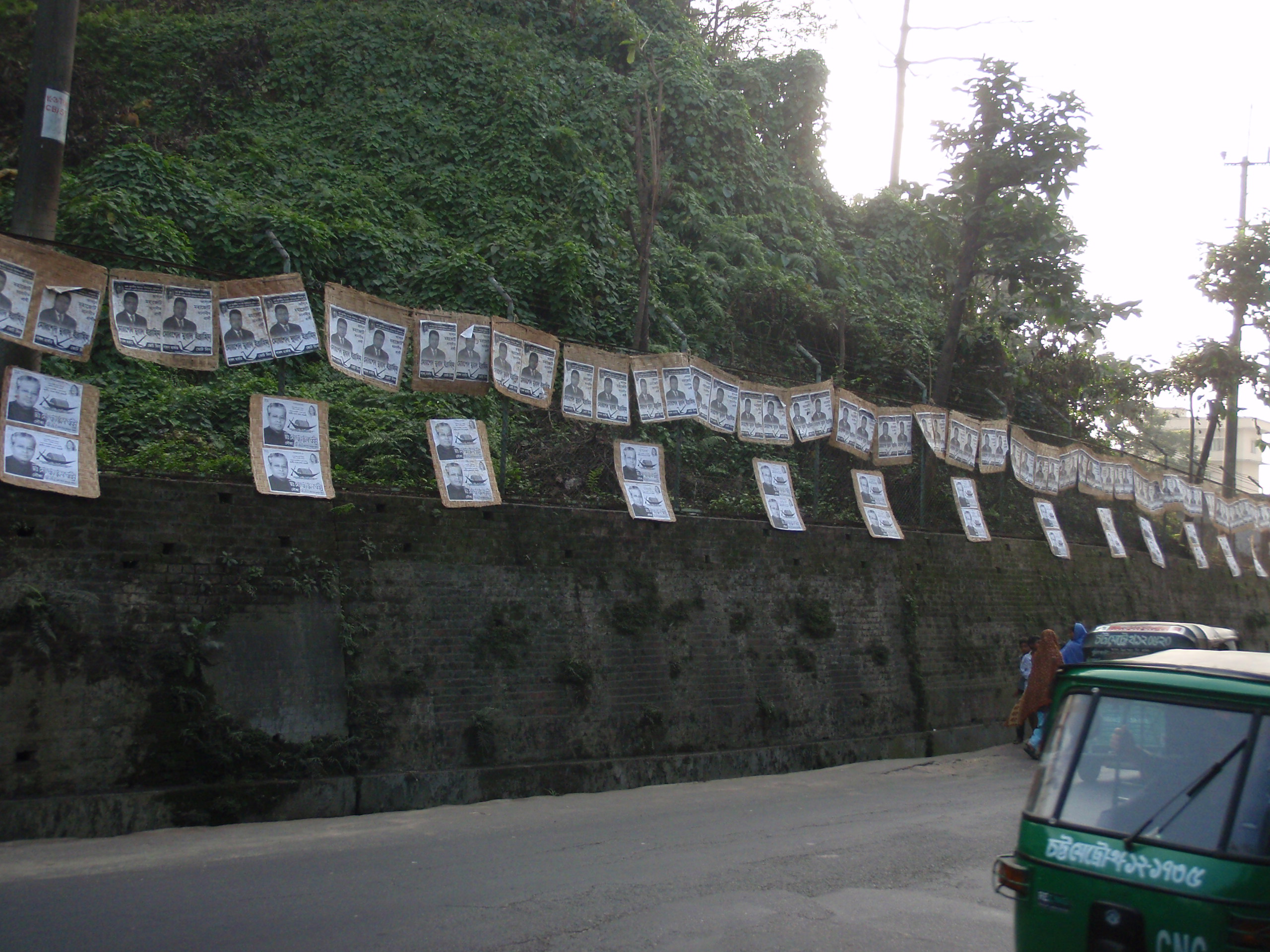 Where there was space, there were banners.